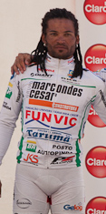 Brazilian road cyclist Flávio Cardoso after the finish of the 2012 Vuelta al Uruguay